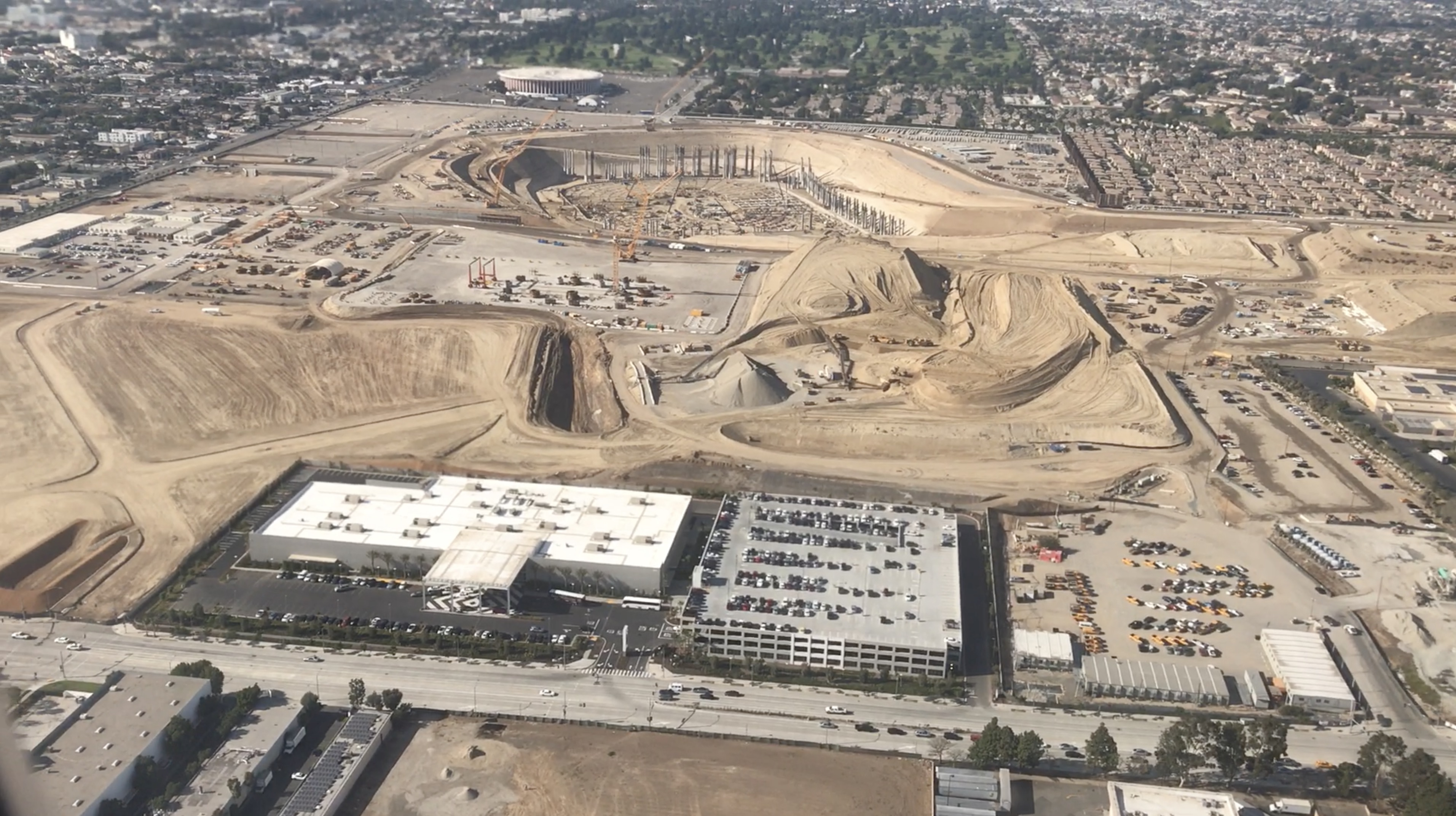 September 2017 aerial view of the construction site of the Los Angeles Stadium at Hollywood Park